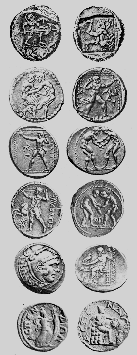 picture of the money of ancient Aspendos